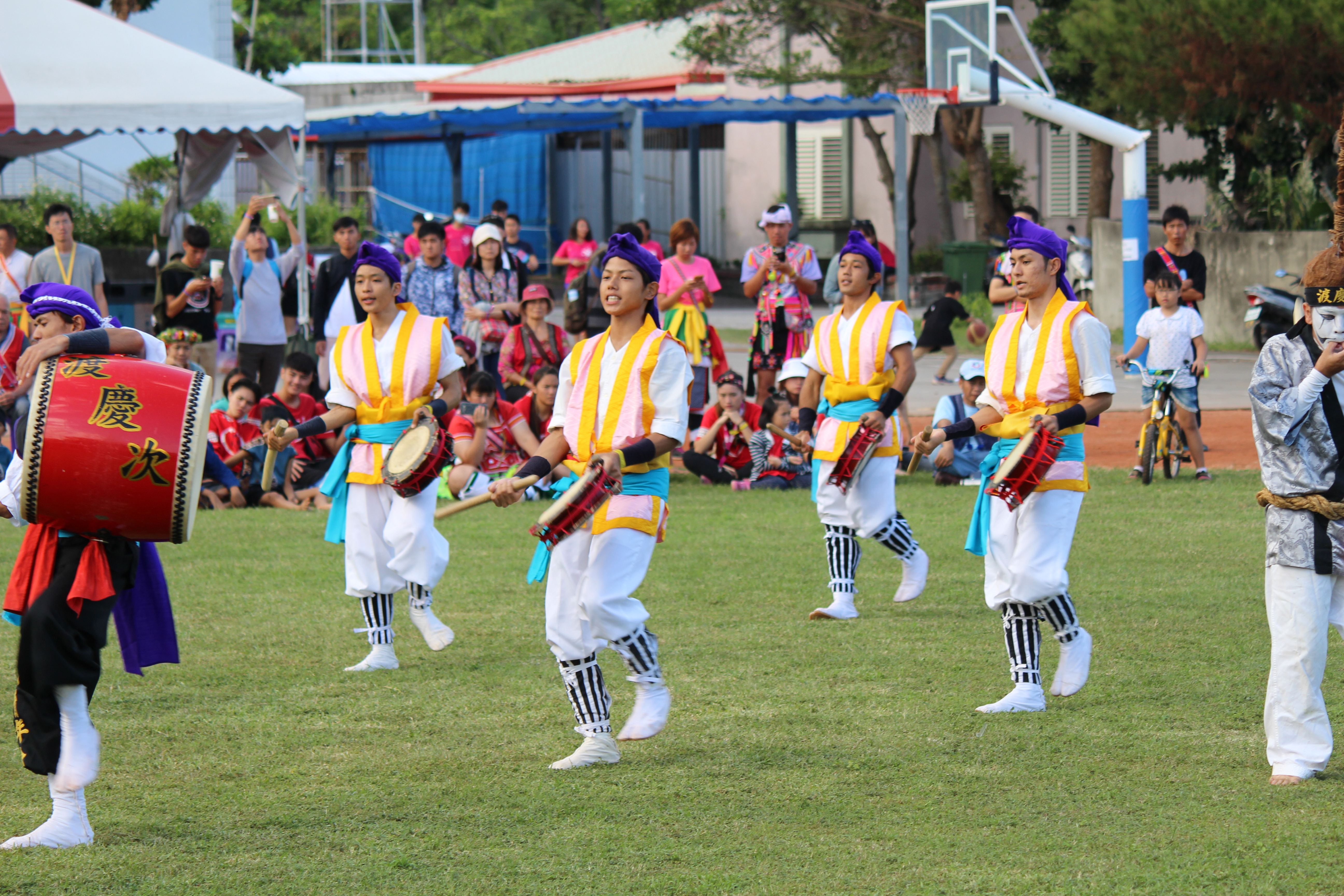 Members of the Tokeshi Youth Association (渡慶次青年會) from Yomitan-son (讀谷村) of Okinawa (沖繩), Japan performing a traditional Eisa dance at the 2016 Amis Music Festival (阿米斯音樂節) in Dulan Village (都蘭), Taitung County, Taiwan. [1] This photo has been taken in the country: Taiwan